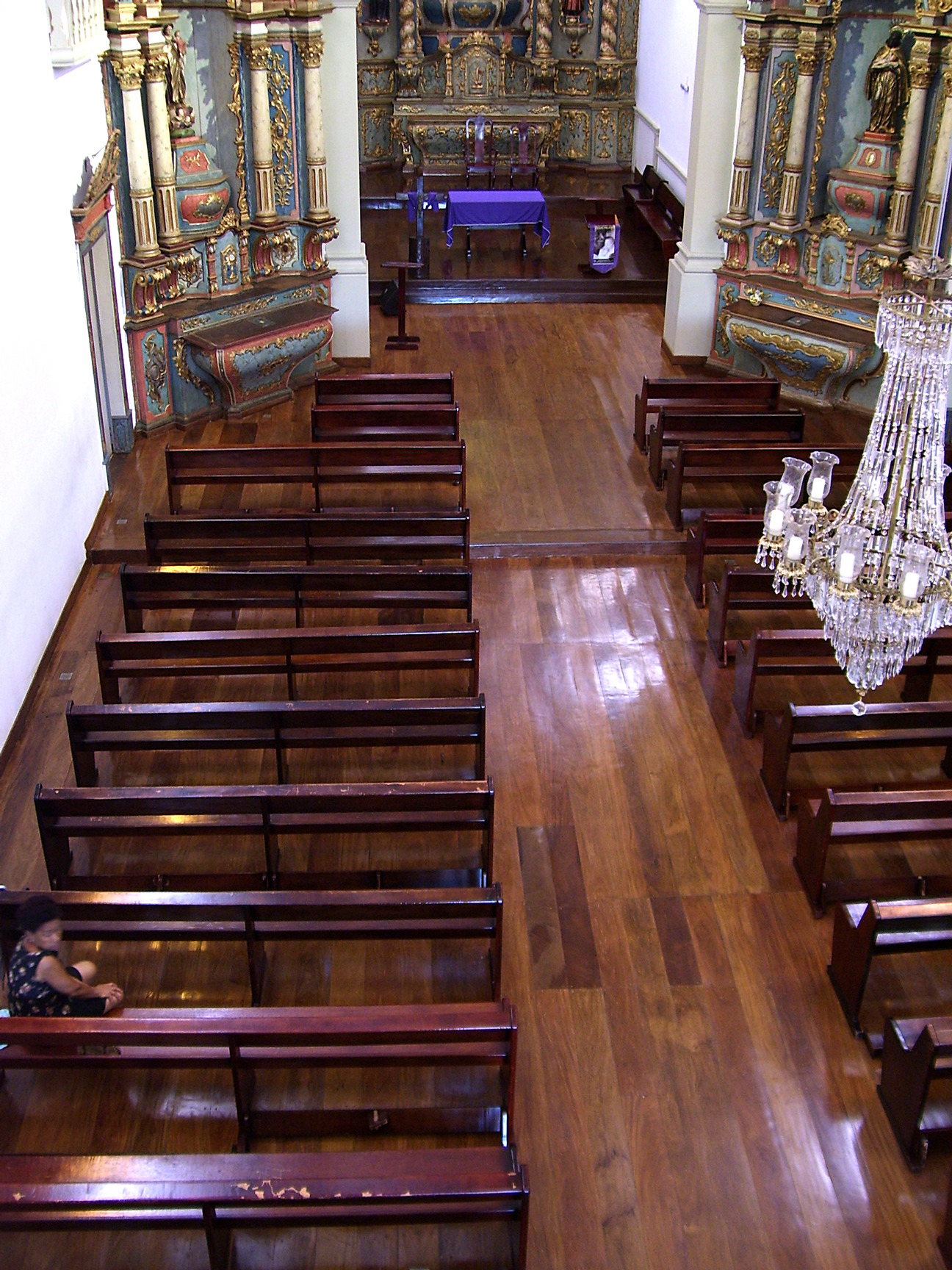 Nave, with wooden flooring, of the church Our Lady of the Rosary and Saint Benedict, Cuiabá, Mato Grosso, Brazil.